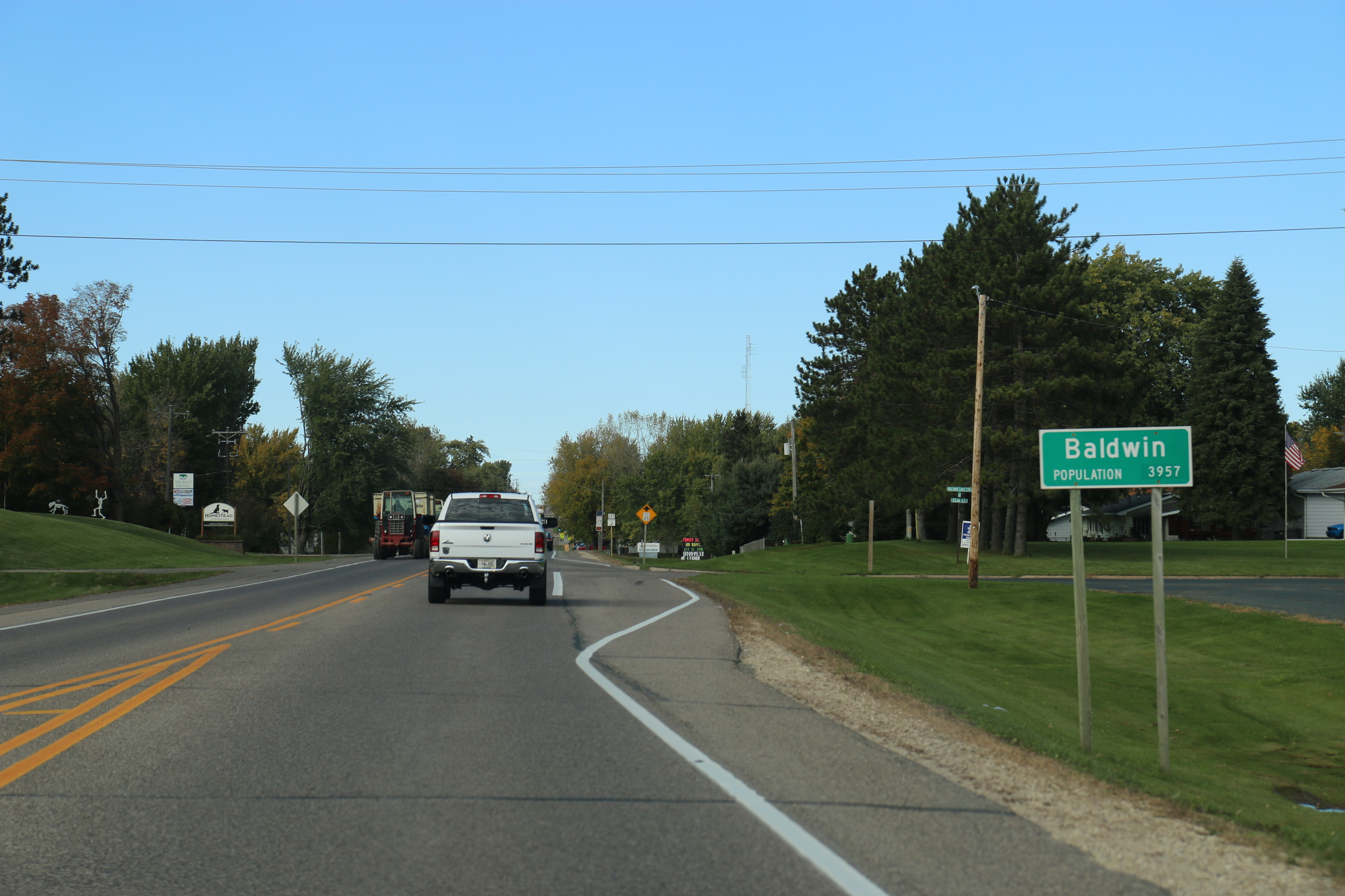 The sign for Baldwin, Wisconsin on U.S. Route 63